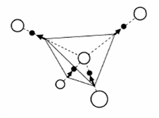 This is an image made by myself. i licensed it to be used under a free license.